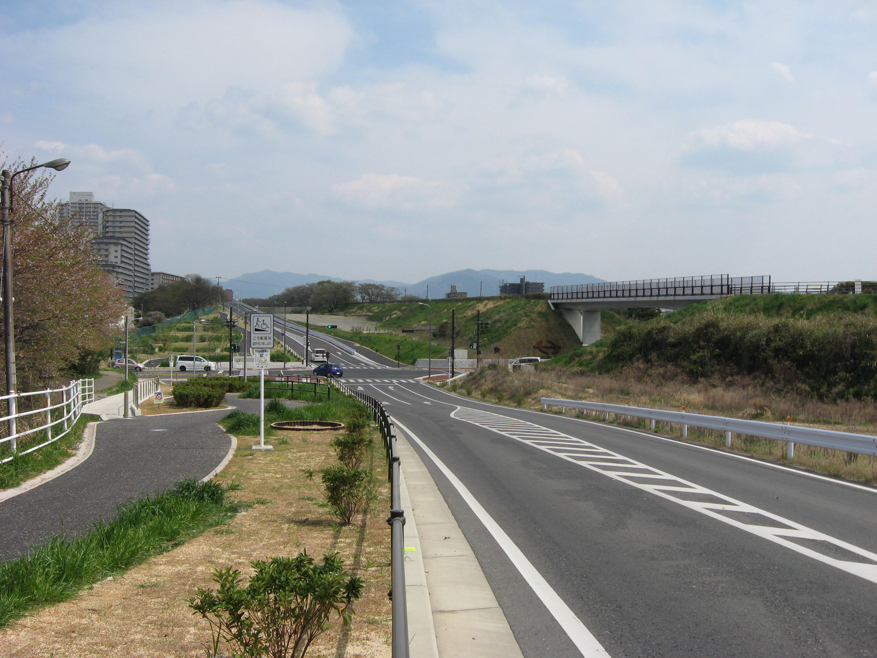 Kusatsu River Embankment Cut Through